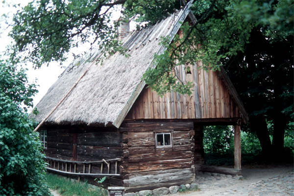 Wdzydze Kiszewskie, a fisherman's cabin in the Kashubian open air museum (Summer 2002).